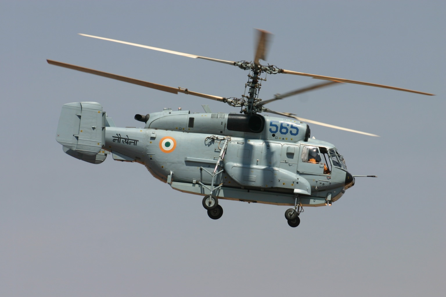 At Bangalore Yelahanka Air Force Base